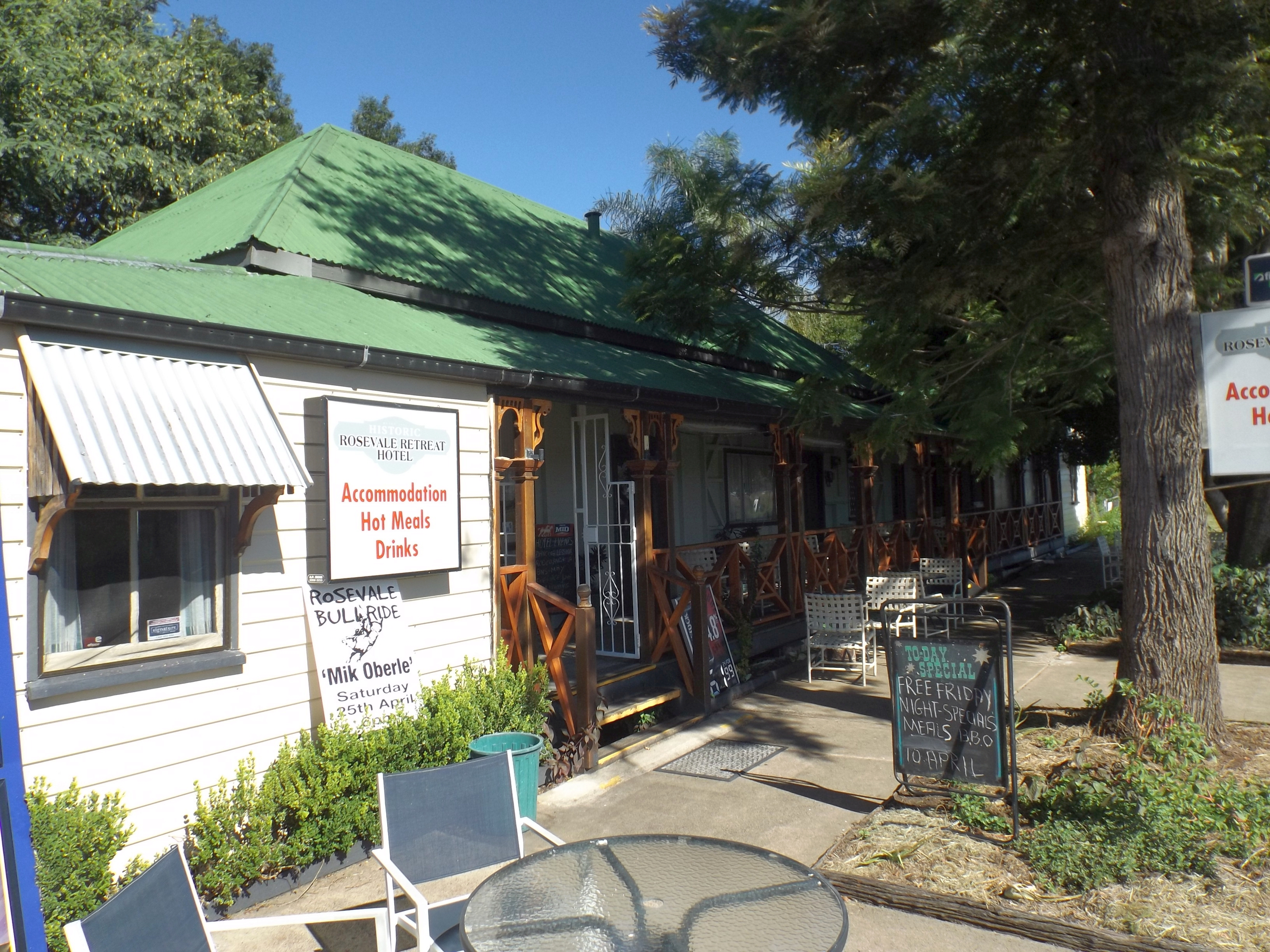 Photo of the front of the Rosevale Retreat Hotel in Rosevale, Scenic Rim Region, Queensland, Australia.